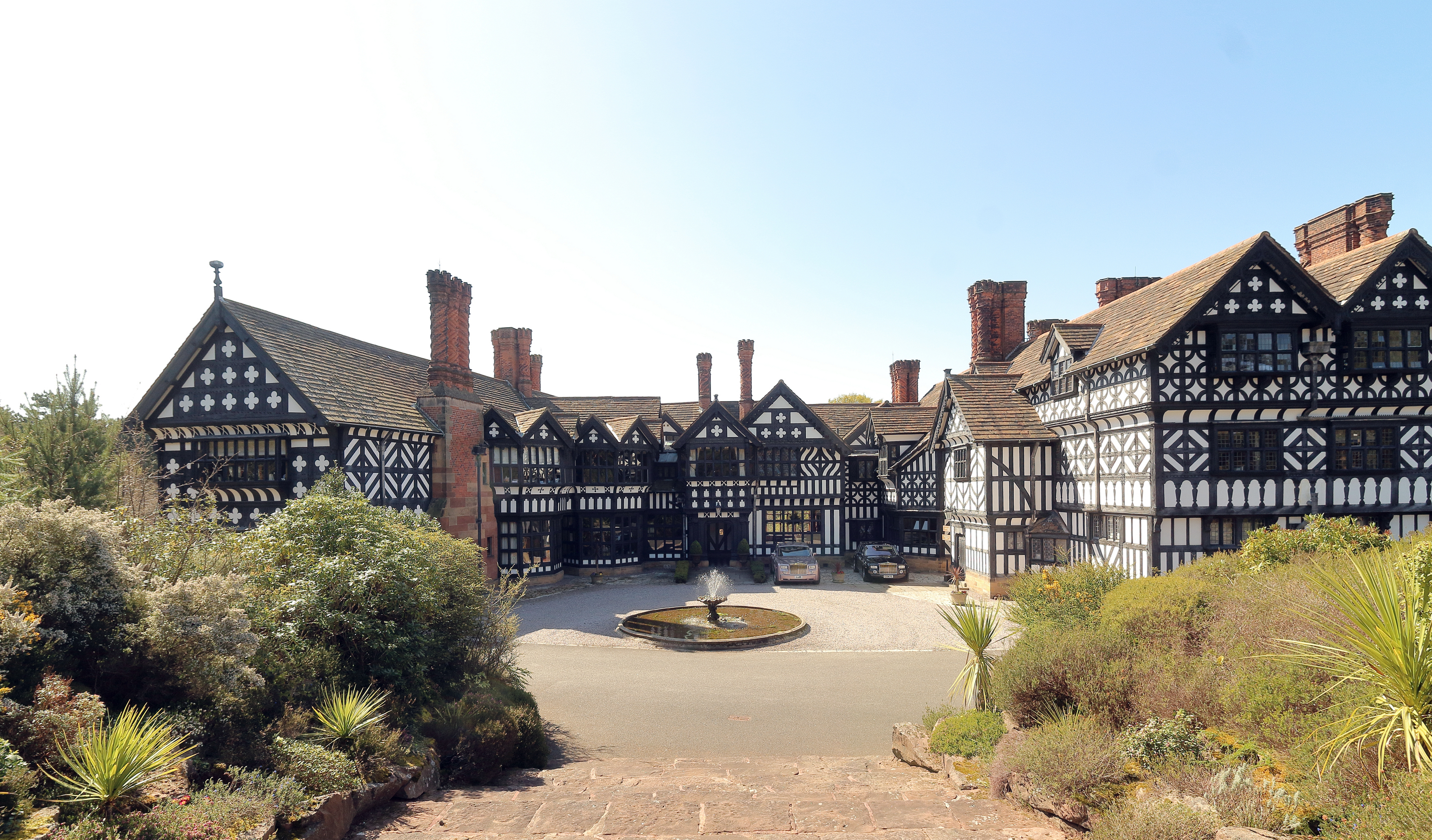 Frontage of Grade II* hotel in Frankby, Wirral. Taken from the top of the steps next to the car park.